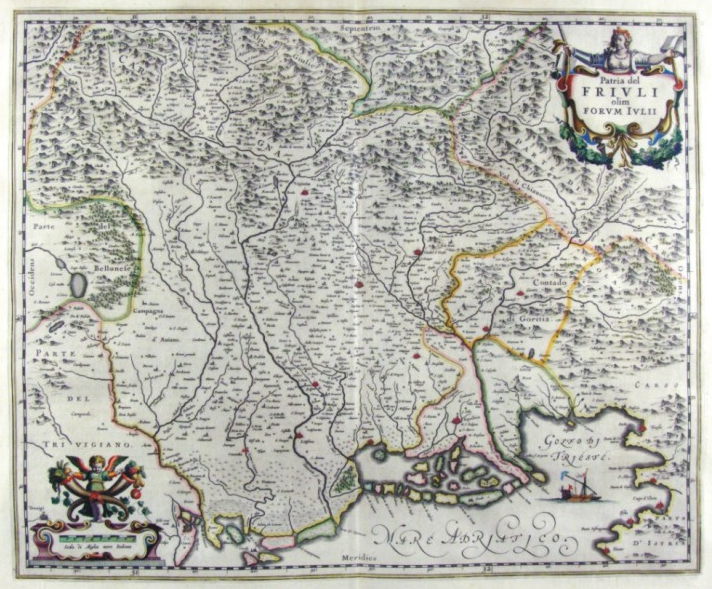 Map of the Friuli from Ioannis Blaeu - Atlas Theatrum Orbis Terrarum (1650)